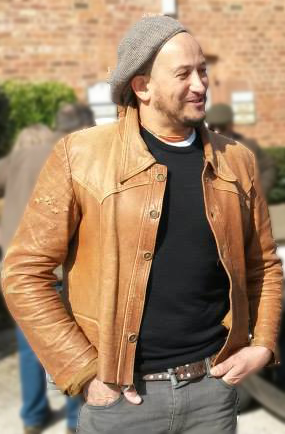 Profile picture of Fuzz Townshend.